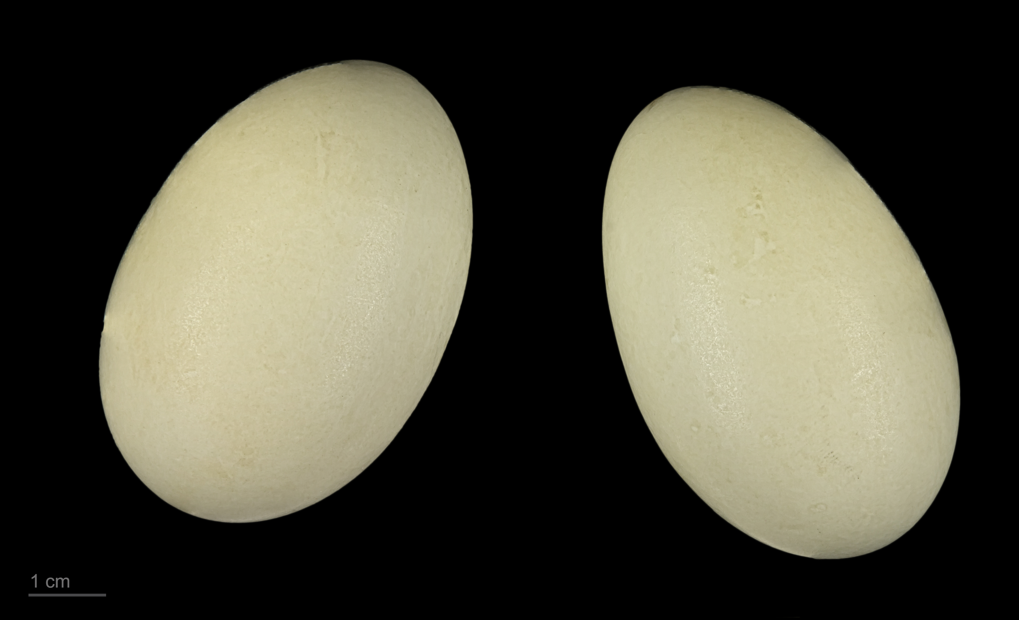 Eggs of pintail Two specimens of the same spawn ; collection of Jacques Perrin de Brichambaut.